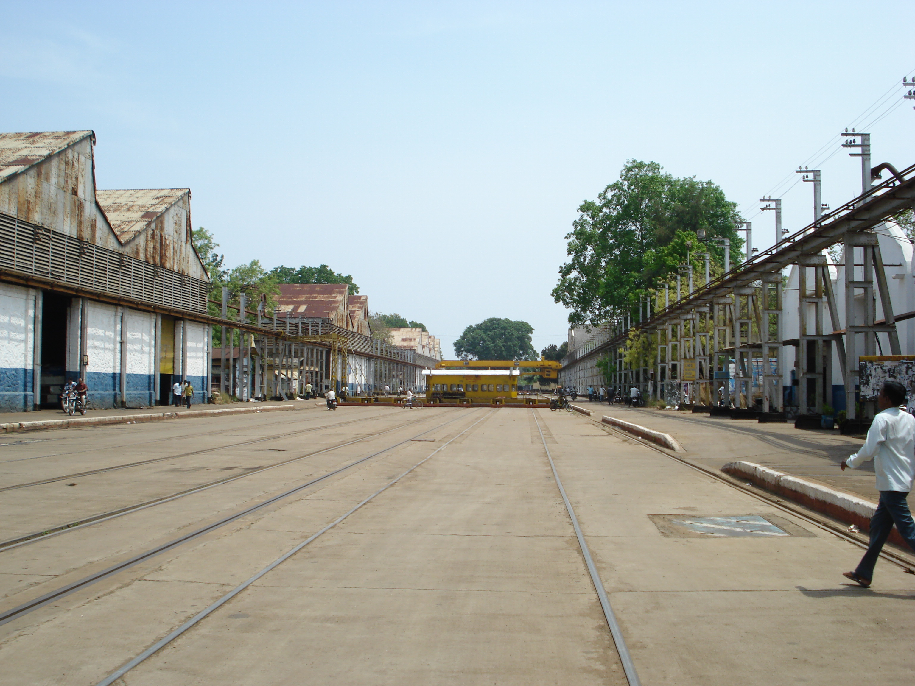 North 'D' entrance of Central Workshop, Golden Rock, Tiruchirapalli from Traverser bay.